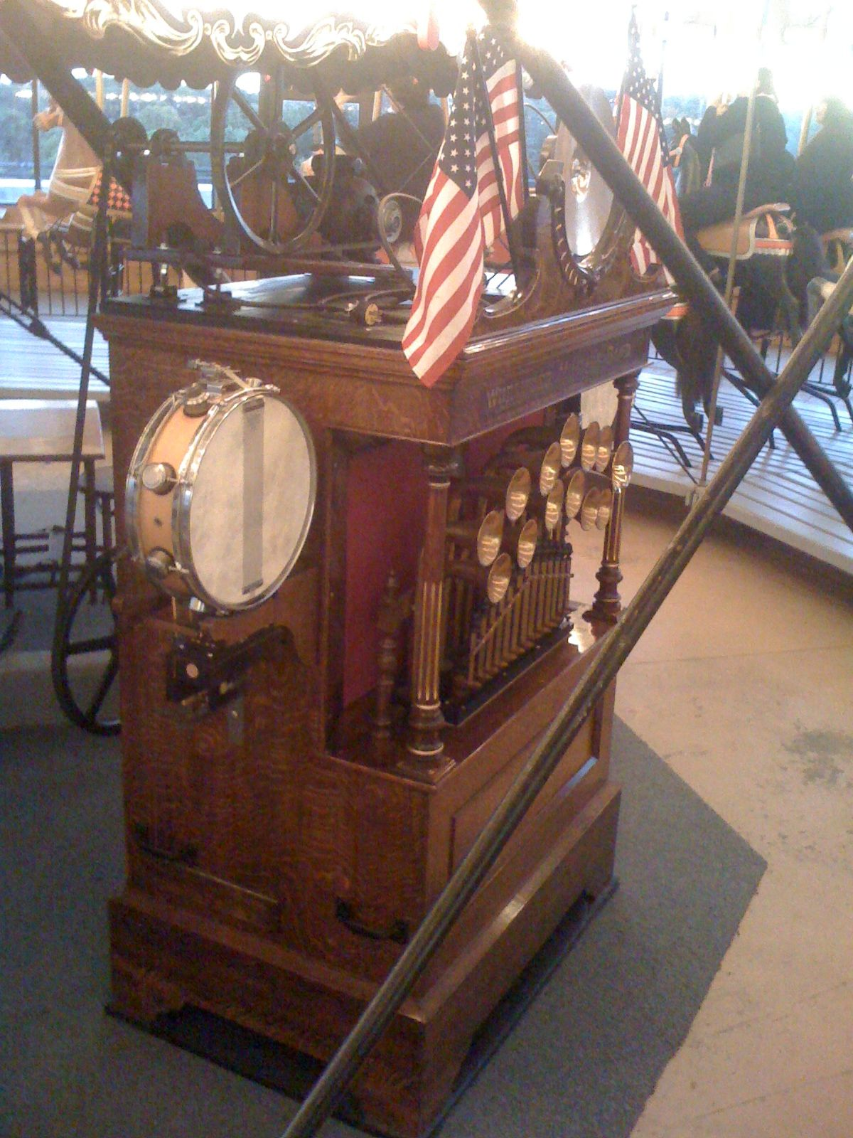 Carousel Band Organ Wurlitzer @ Cultural Education Center, NY